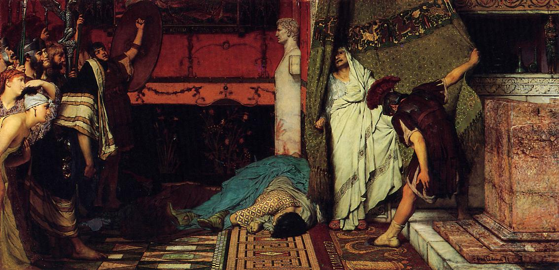 A Roman Emperor AD41, depicts the future Emperor Claudius who was said to have been found cowering behind a curtain by members of the Praetorian Guard after the Emperor Caligula was assasinated. Caligula's murdered wife lies on the floor to the left